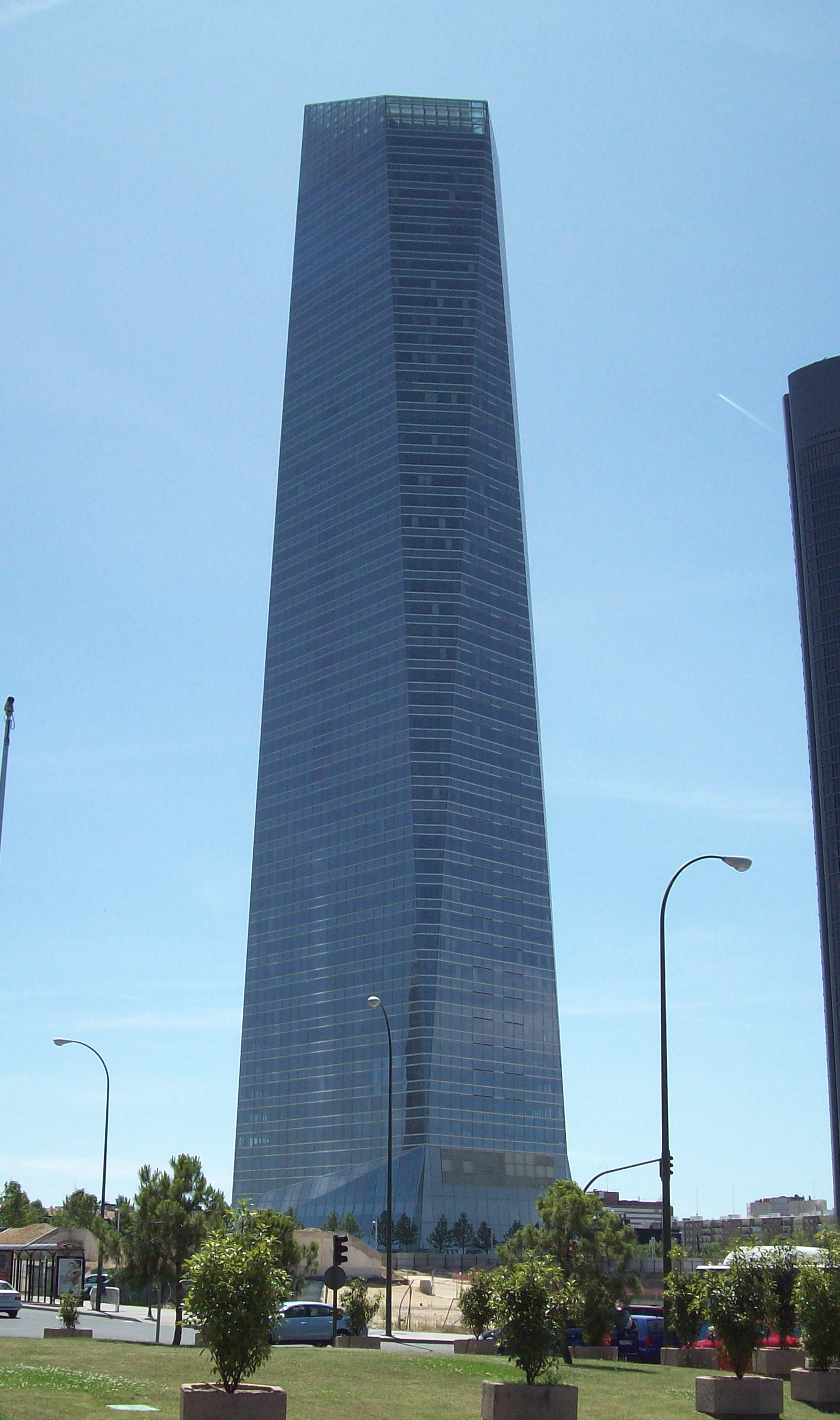 View of Torre de Cristal ("Crystal Tower") in Cuatro Torres Business Area (Madrid, Spain) from the north-west angle.